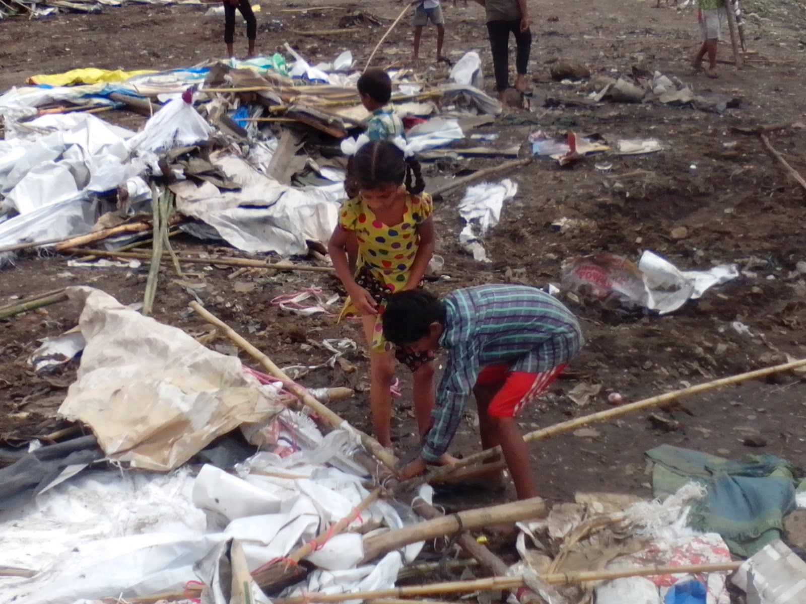 Slum Demolition which took place in Mandala, Mumbai, India on 30th June 2015.